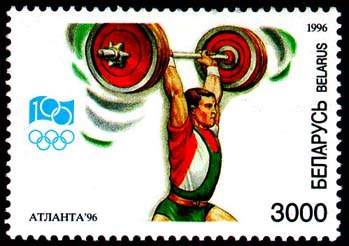 Stamp of Belarus